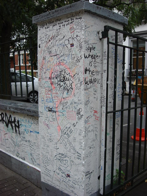 The most painted wall in Westminster? This wall outside Abbey Road Studios is regularly re-painted, only to receive more graffiti from visiting Beatles fans.